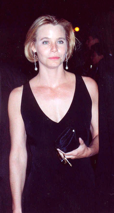 Susan Dey at the 42nd Emmy Awards - Sept. 1990- Governor's Ball